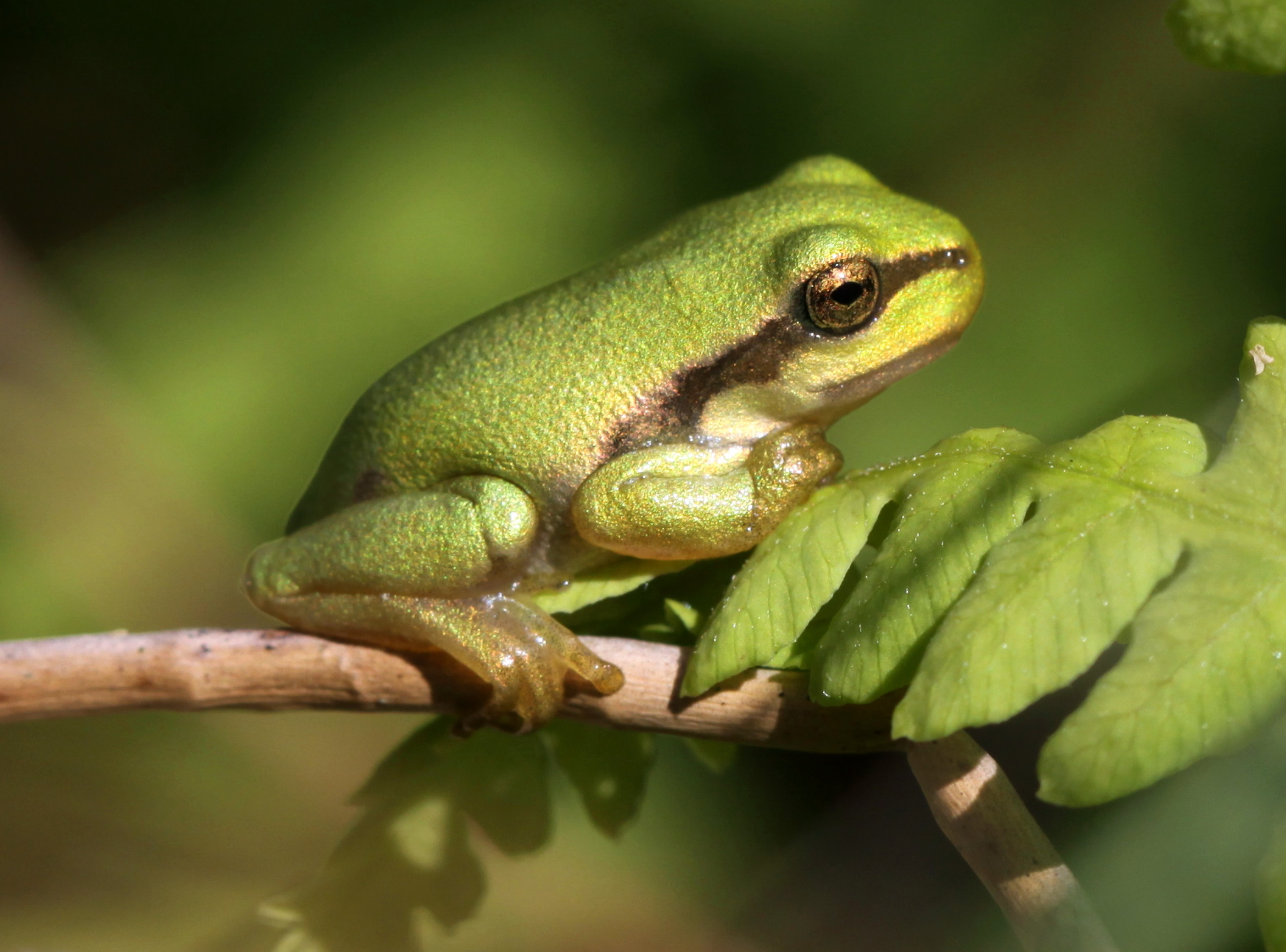 young treefrog